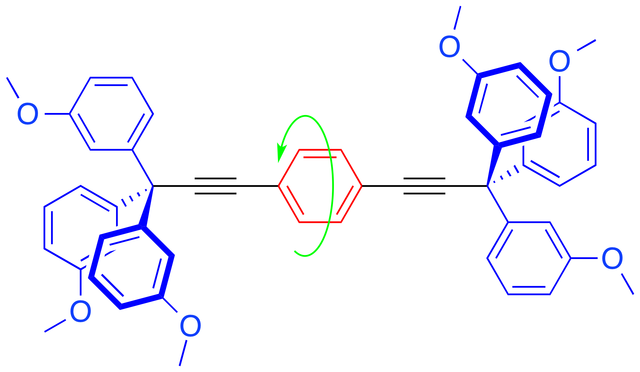 Skeletal structure of 1,4-bis[3,3,3-tris(m-methoxyphenyl)propynyl]benzene, colored to indicate the rotor (p-phenylene in red), stators (tris-m-methoxytrityl in blue), and linkages (alkyne in black) of the structure as a molecular gyroscope (rotation indicated by green arrow). Tinh-Alfredo V. Khuong, Hung Dang, Peter D. Jarowski, Emily F. Maverick, and Miguel A. Garcia-Garibay (2007). "Rotational Dynamics in a Crystalline Molecular Gyroscope by Variable-Temperature 13C NMR, 2H NMR, X-Ray Diffraction, and Force Field Calculations". J. Am. Chem. Soc. 129 (4): 839-845.